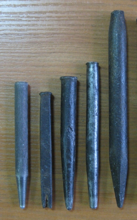 Metal worker's tools